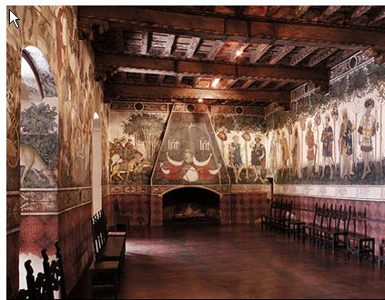 I Nove Prodi, The Nine Worthies. Fresco by the Maestro del Castello della Manta, an anonymous artist. 15th.c. The series continues to the right with depictions of their female counterparts. In the sala baronale of the Castello della Manta, Saluzzo, Italy.